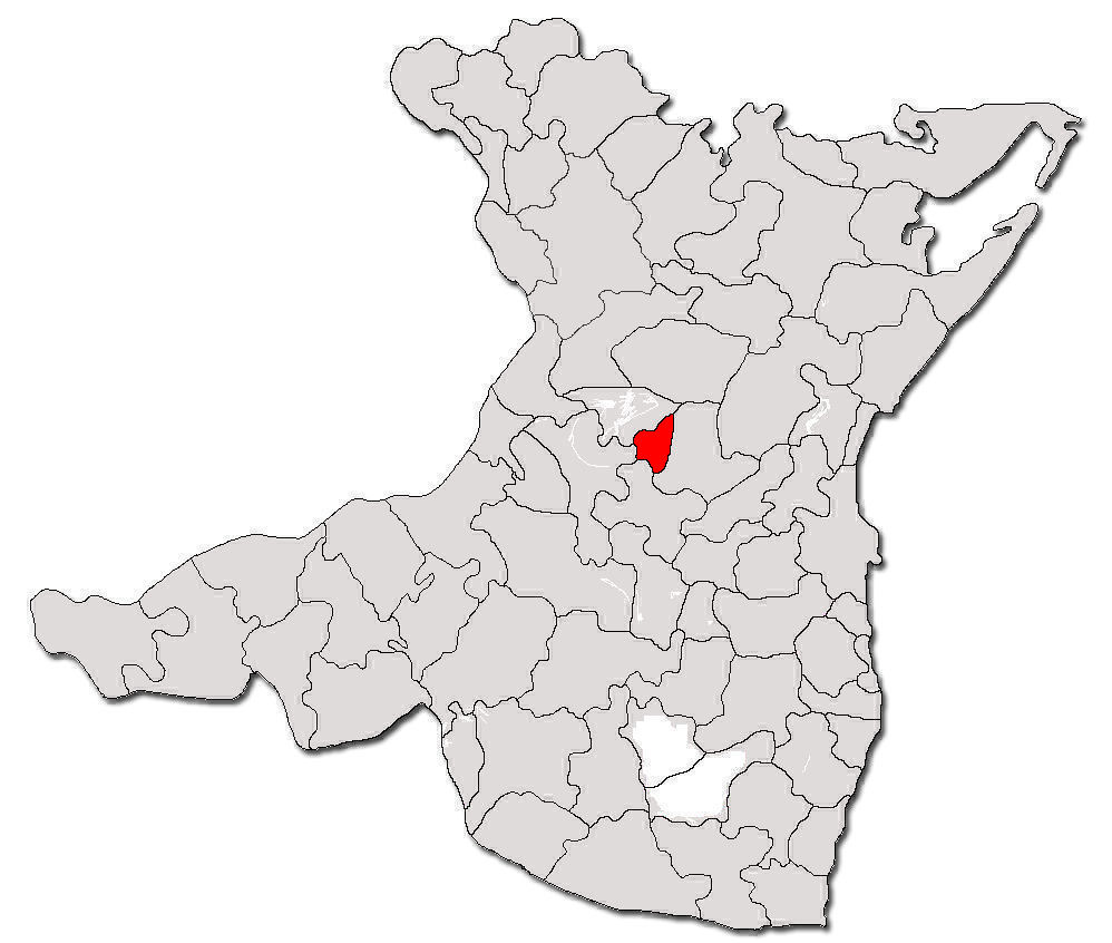 Contour map of commune Cuza Voda